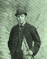 Front cover of his autobiography